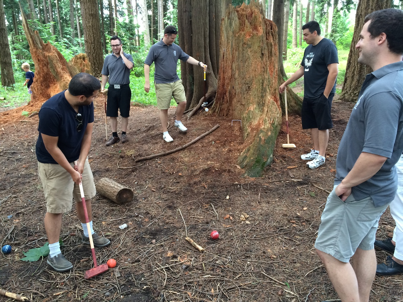 Robin attempts to pass through a difficult wicket.